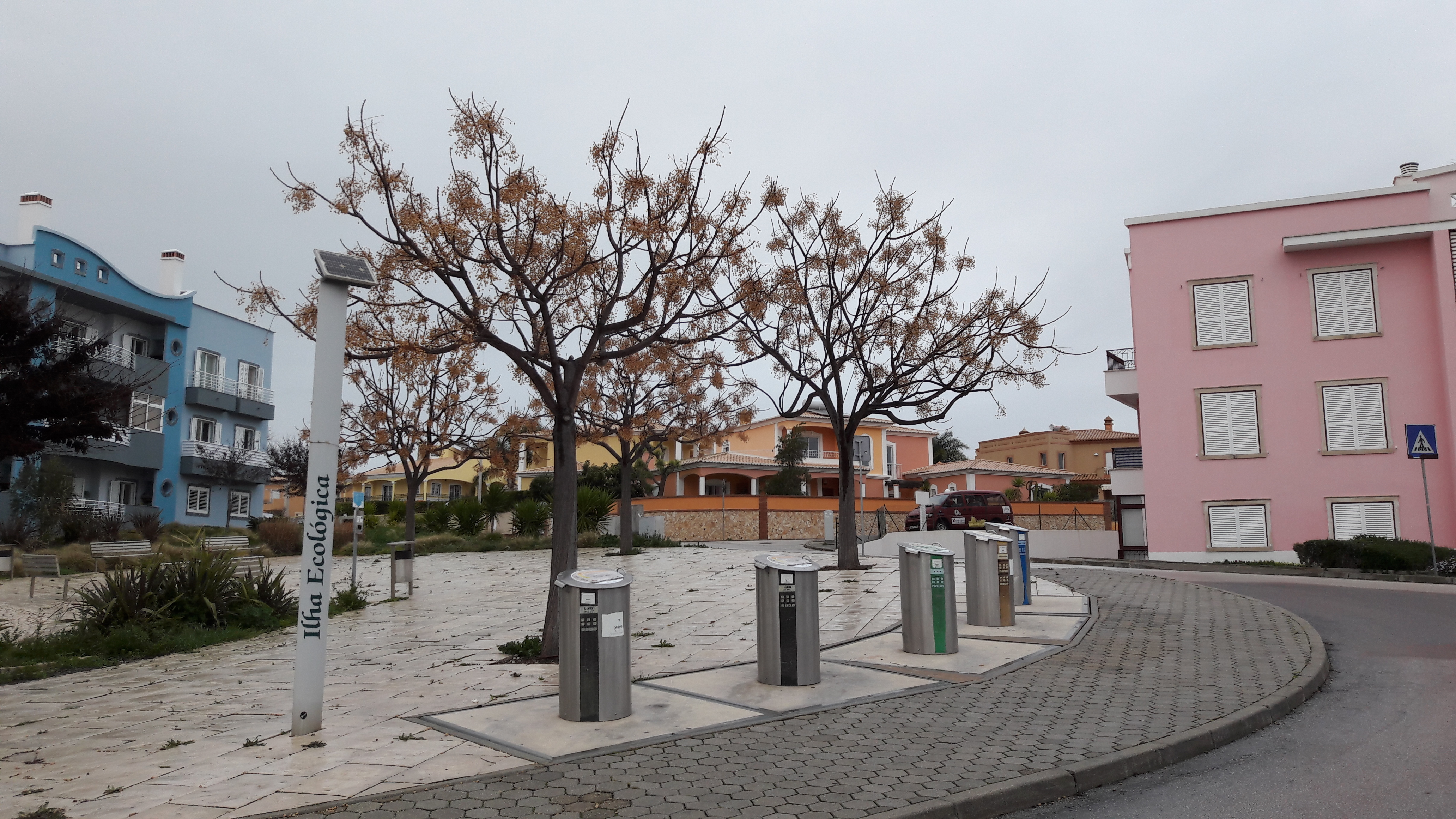 A row of underground recycling containers in the city of Lagos, Algarve, Portugal. The hoppers store a greater amount of waste than surface ones. It is common to find other recycling dumpsters for batteries, clothes and vegetable oils in the same location.